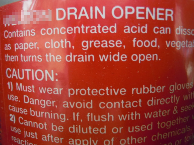 An acidic drain opener found in a Hardware store.